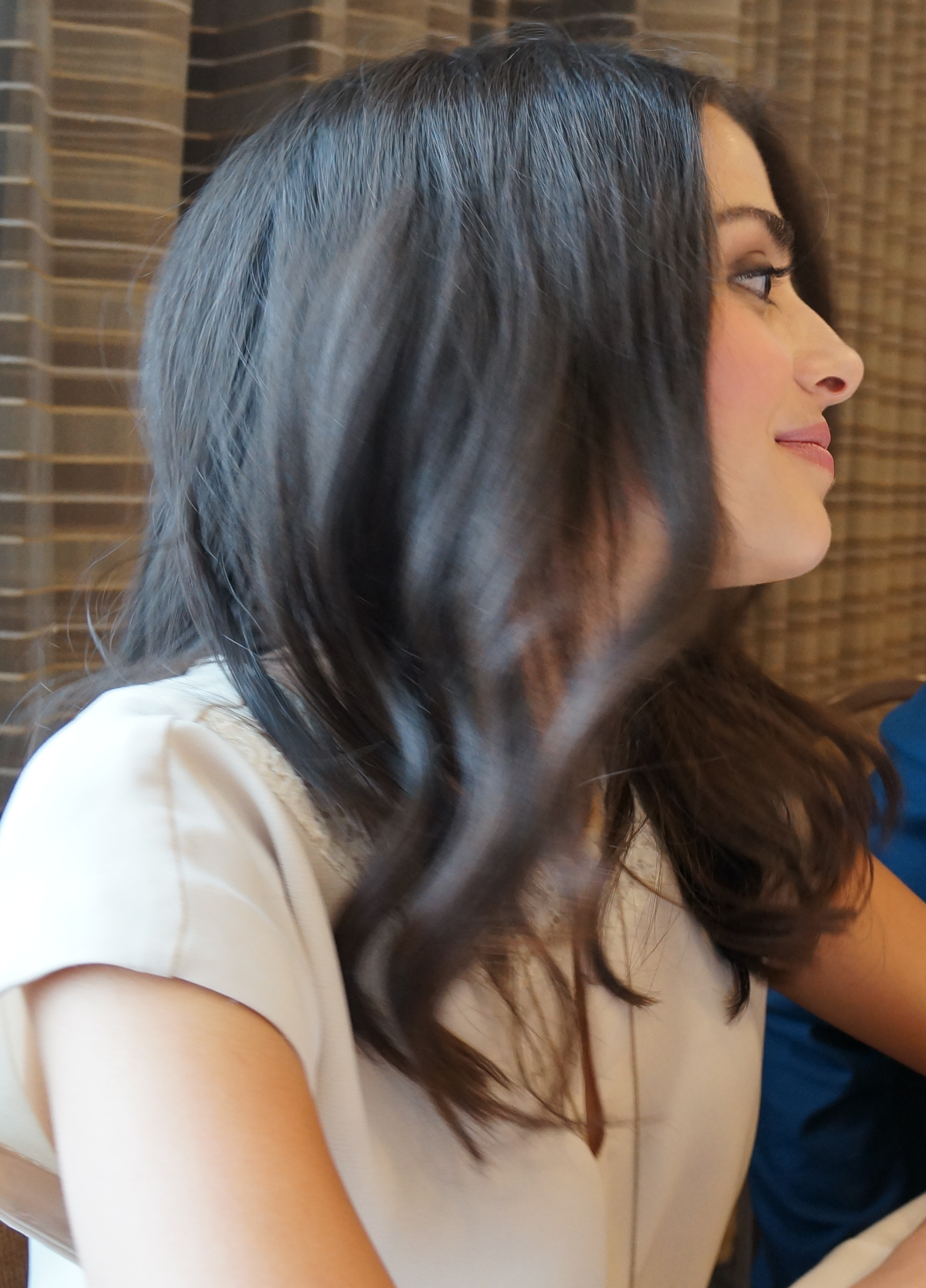 Defiance Press Room